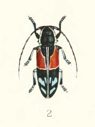 « Tragocephala pulchra » = Tragocephala guerinii